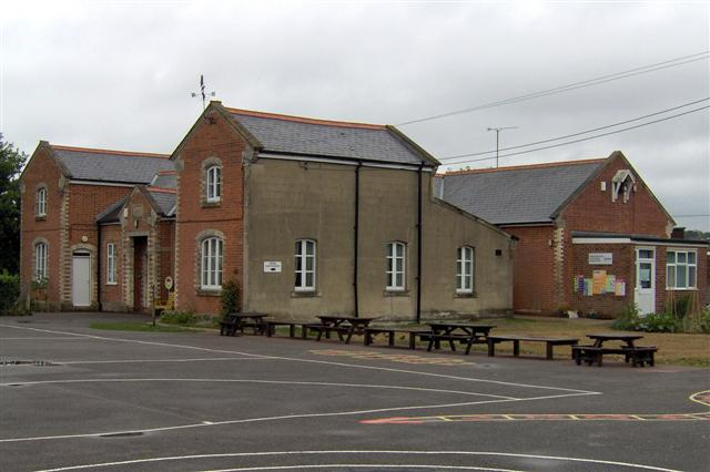 Photograph of Grazeley Parochial Primary School, Grazeley, Reading, taken by myself. August 2006.